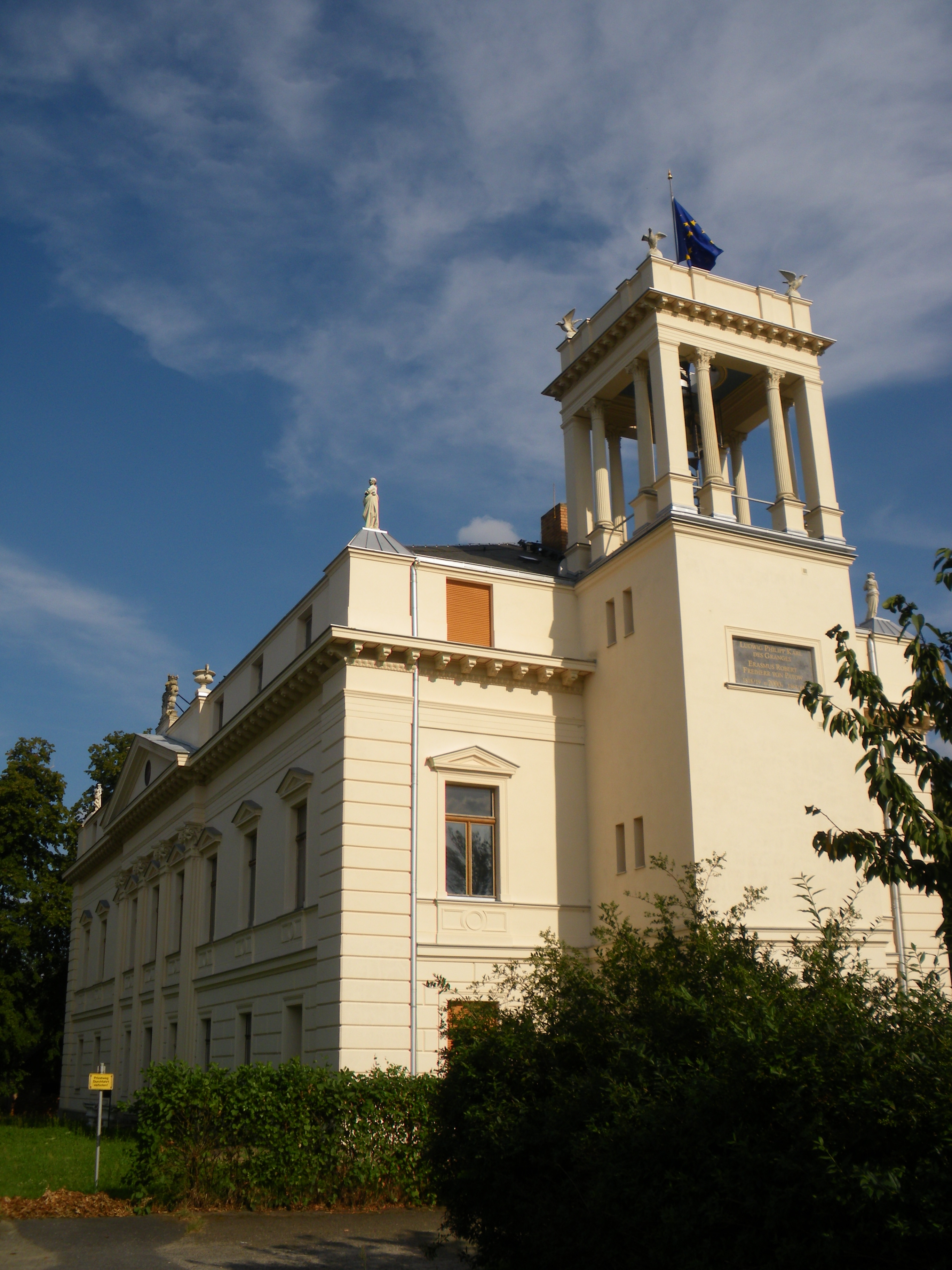 Zinnitz manor near Calau, Brandenburg, Germany